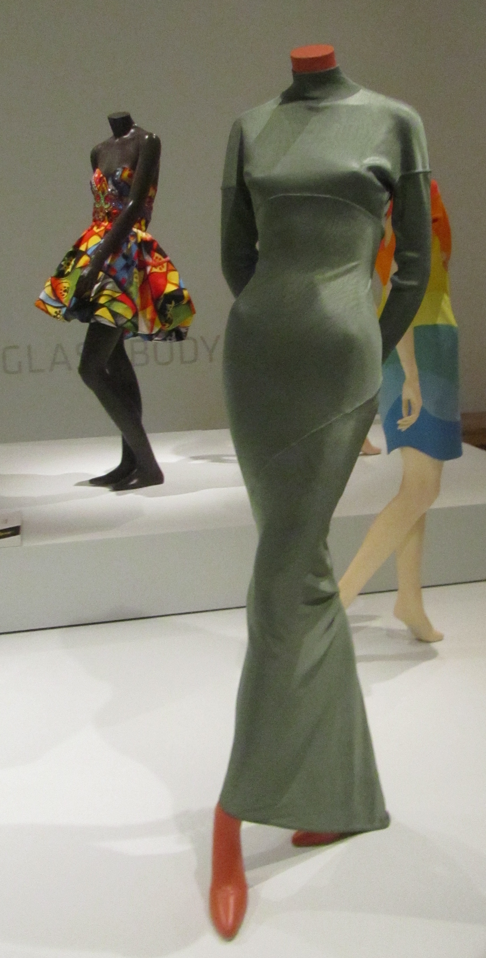 Azzedine Alaia grey acetate dress from 1986-1987